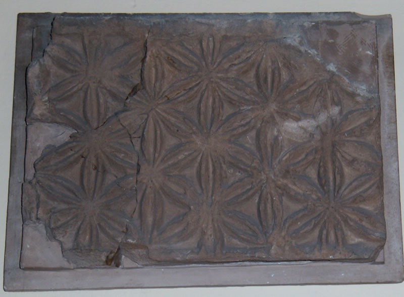 Example of a plaster decoration found in the Parthian Palace at Ashur (Mesopotamia)